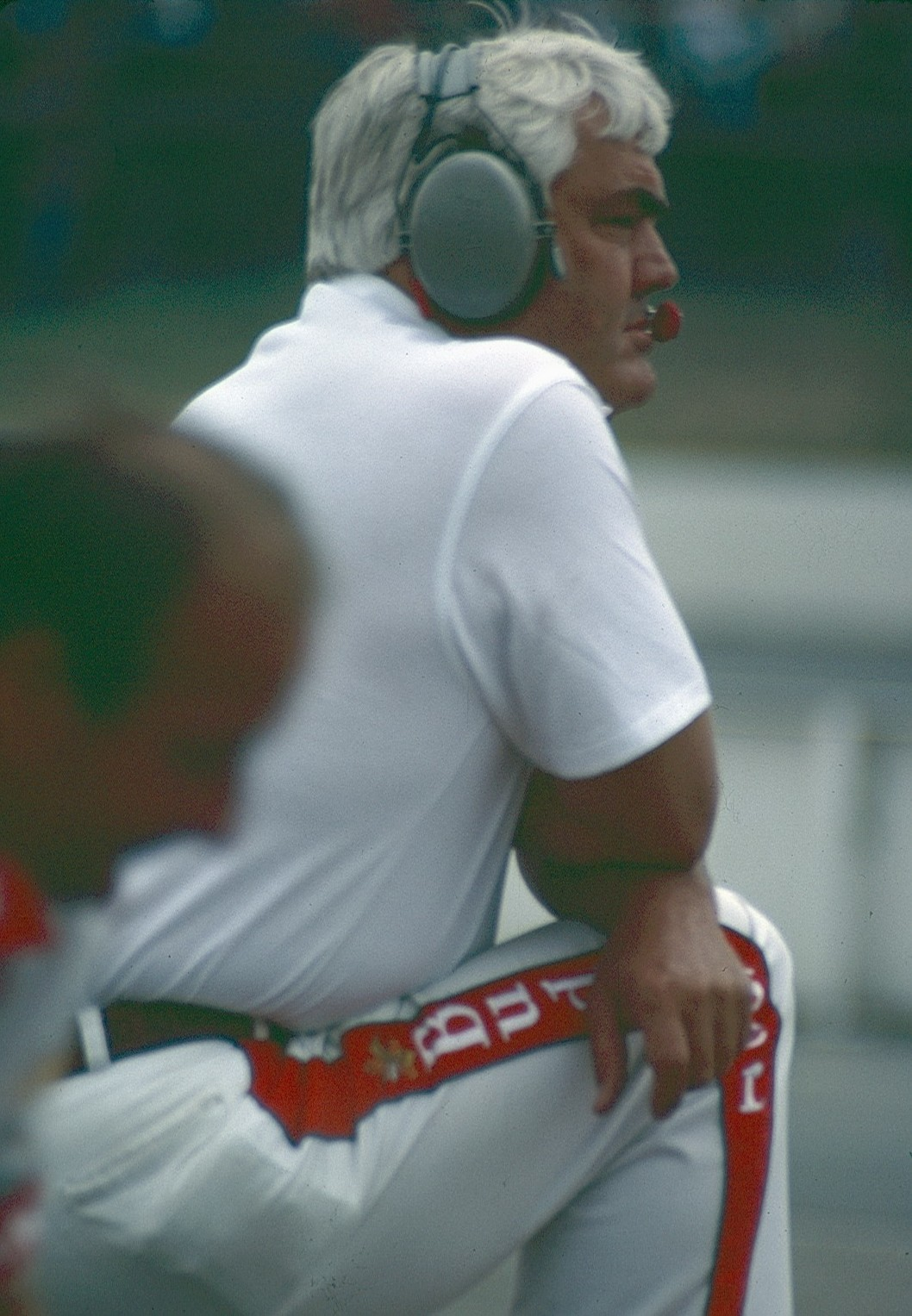 Then-NASCAR owner and former driver Junior Johnson in 1985, Photo by Ted Van Pelt.